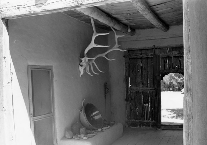 Georgia O'Keeffe Home, zaguan, side entrance